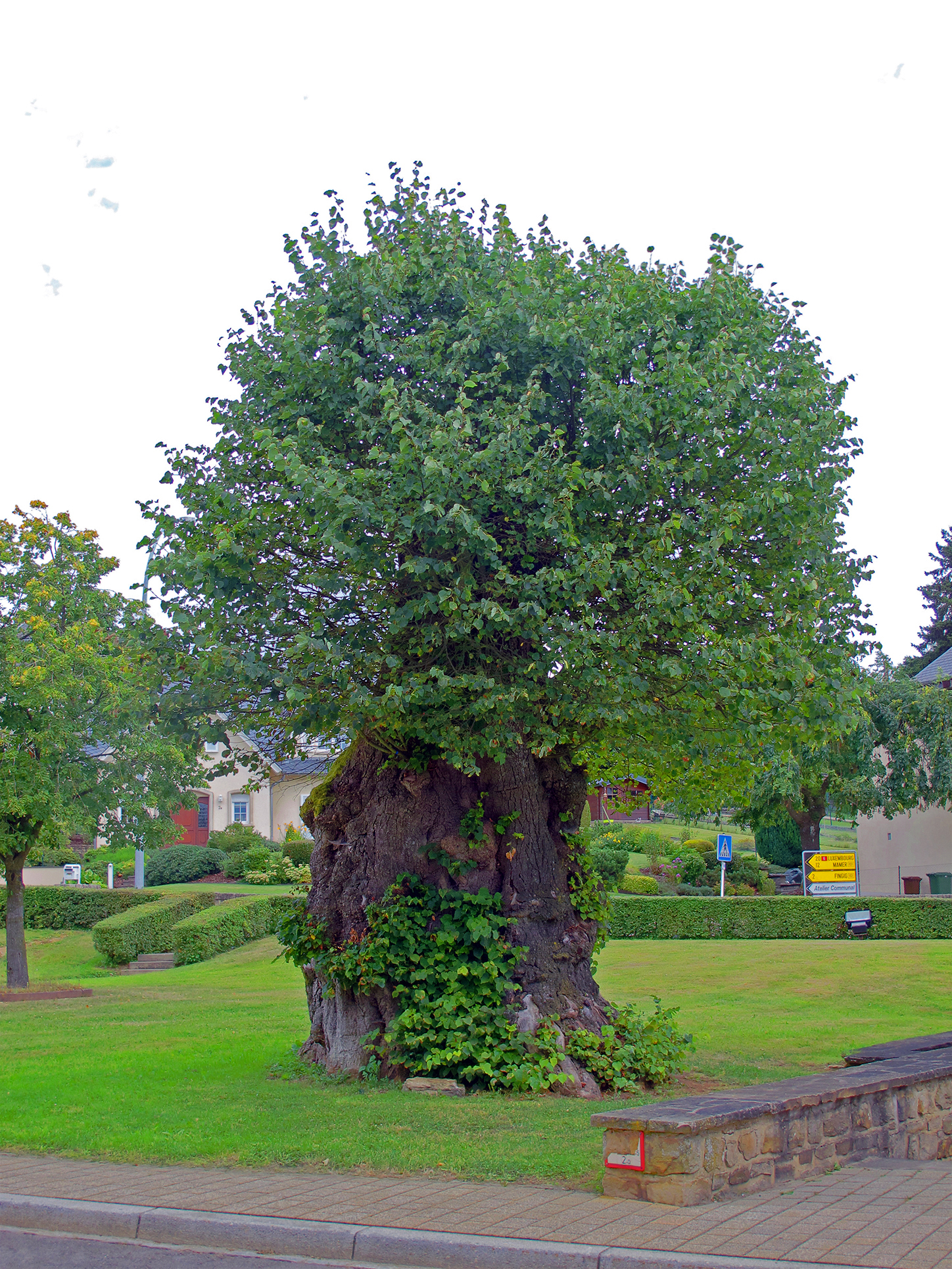 Lime tree in Clemency, Luxembourg